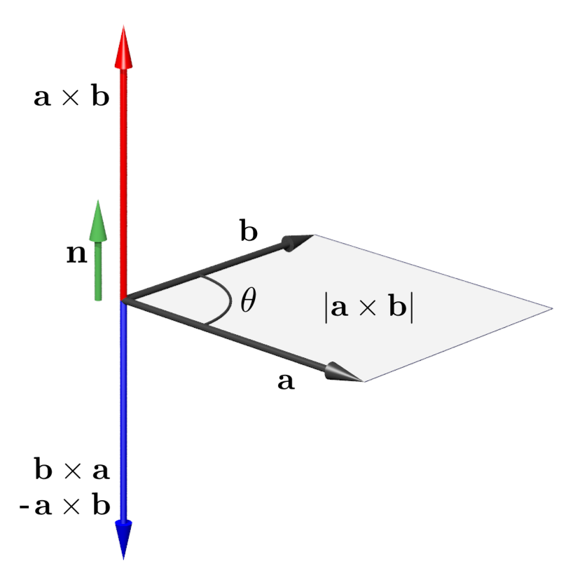 Cross product